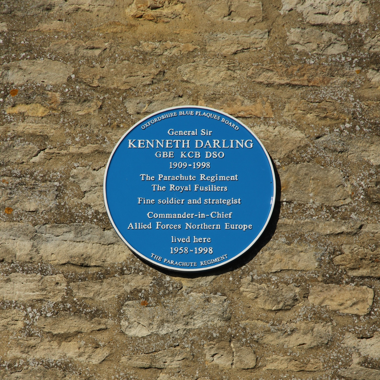 Blue plaque on Vicarage Farmhouse, Alchester Road, Chesterton, Oxfordshire, in memory of General Sir Kenneth Darling (1909–98)